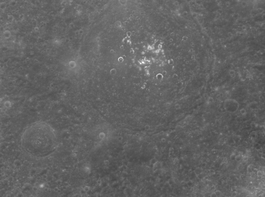 Abu Nuwas crater on Mercury. MESSENGER Wide Angle Camera, rotated and cropped from browse version to center on crater. Center Emission Angle: 11.727827280841 Center Incidence Angle: 16.346347049859 Center Latitude: 15.610181680642 Center Longitude: 338.79911117354 Center Phase Angle: 28.072806066568